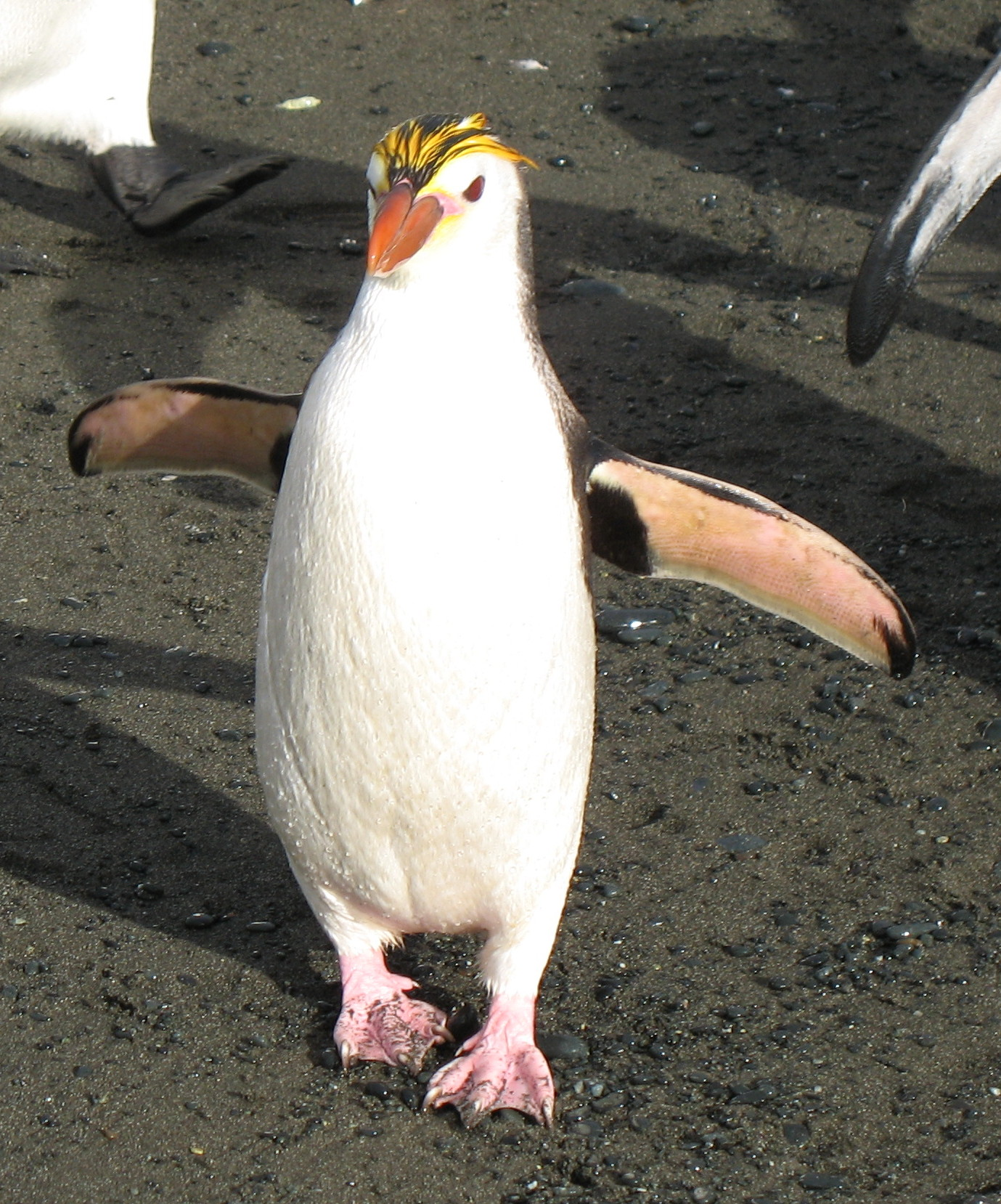 Photo of a Royal Penguin (Eudyptes schlegeli) on Macquarie Island (frontal shot)